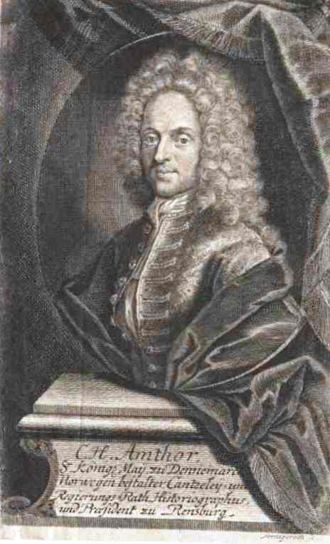 Christoph Heinrich Amthor (1677–1721)